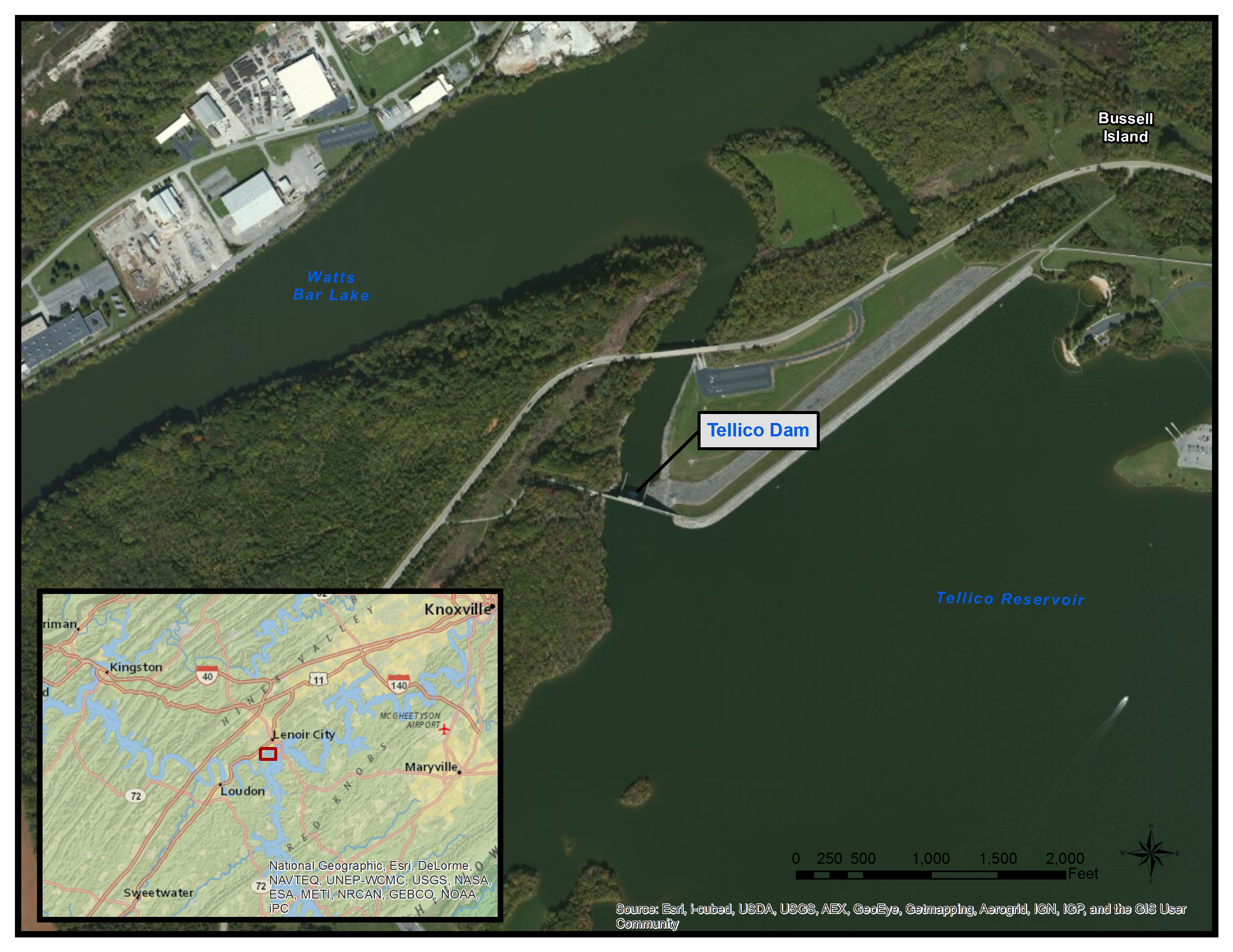 Map showing the location of Tellico Dam in Tennessee.